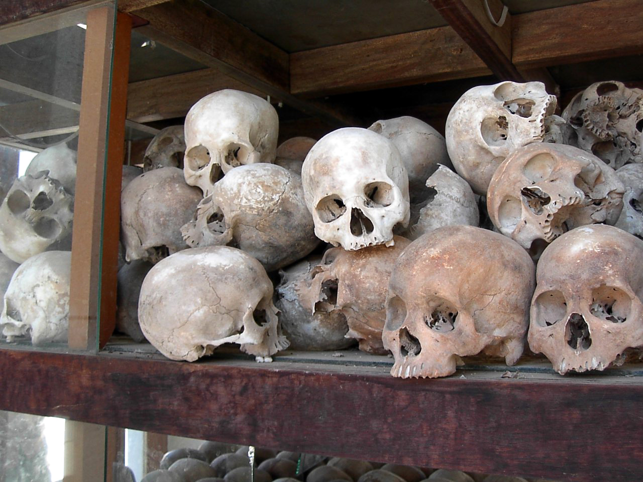 Photographed and uploaded to English Wikipedia by Adam Carr